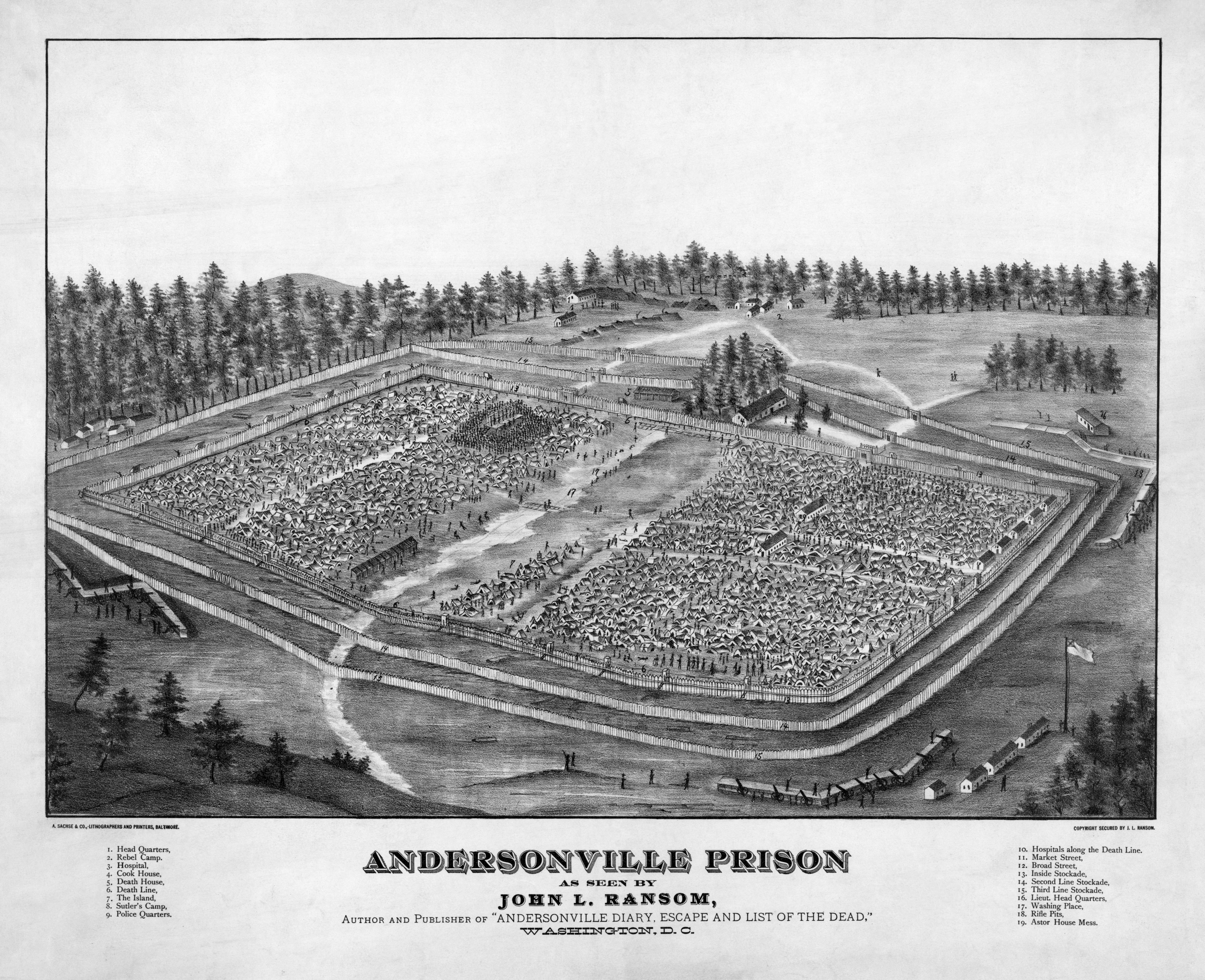 A sketch of Andersonville Prison by John L. Ransom, author of Andersonville Diary, Escape and List of the Dead. Areas of the sketch are numbered, the labels at the bottom are transcribed below: 1. Head Quarters, 2. Rebel Camp. 3. Hospital, 4. Cook House, 5. Death House, 6. Death Line, 7. The Island, 8. Sutler's Camp, 9. Police Quarters. 10. Hospitals along the Death Line. 11. Market Street, 12. Broad Street, 13. Inside Stockade, 14. Second Line Stockade, 15. Third Line Stockade, 16. Lieut. Head Quarters, 17. Washing Place, 18. Rifle Pits, 19. Astor House Mess.